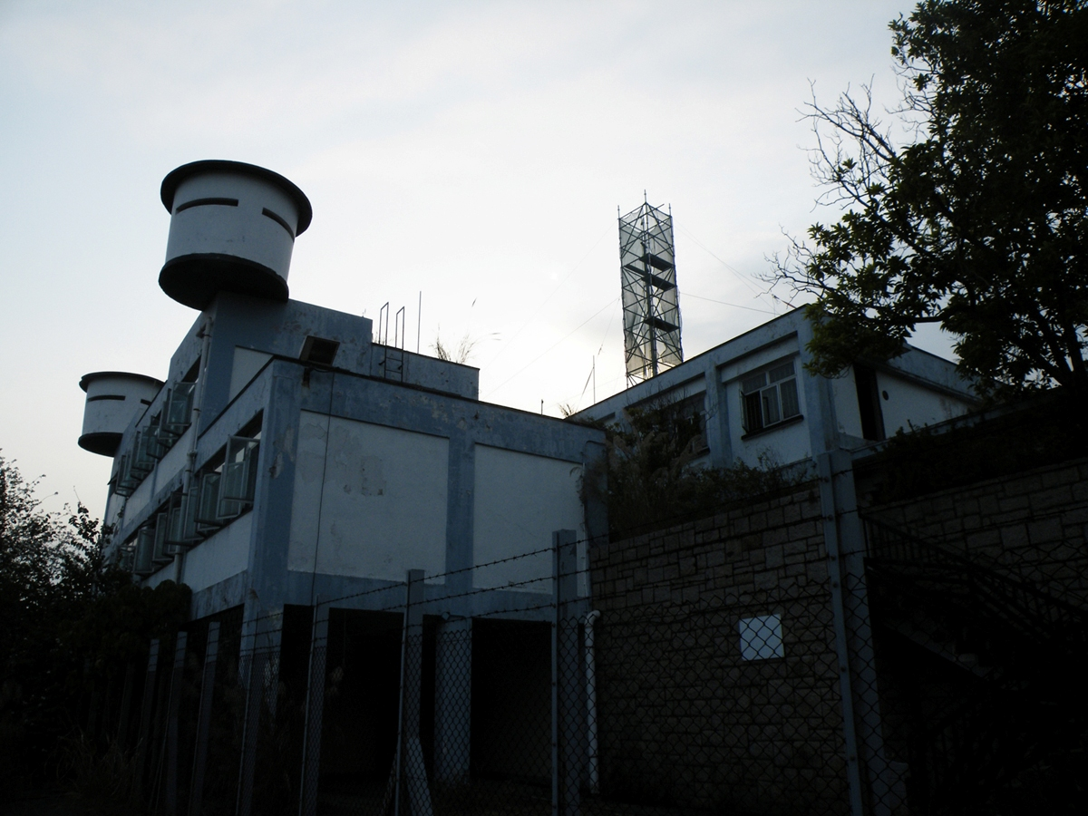 Former Lau Fau Shan Police Station